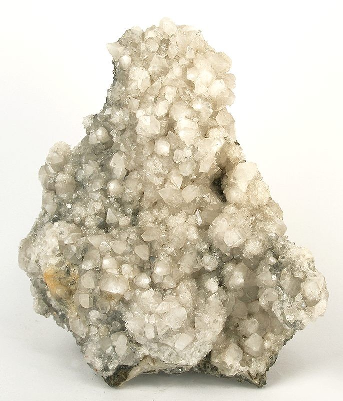 Apophyllite-(KF) Locality: St Andreasberg, St Andreasberg District, Harz Mts, Lower Saxony, Germany (Locality at ) Size: 10.7 x 9.7 x 4.2 cm. A sparkling, gorgeous, large specimen that is a typical Andreasberg matrix literally draped by sharp crystals of apophyllite.